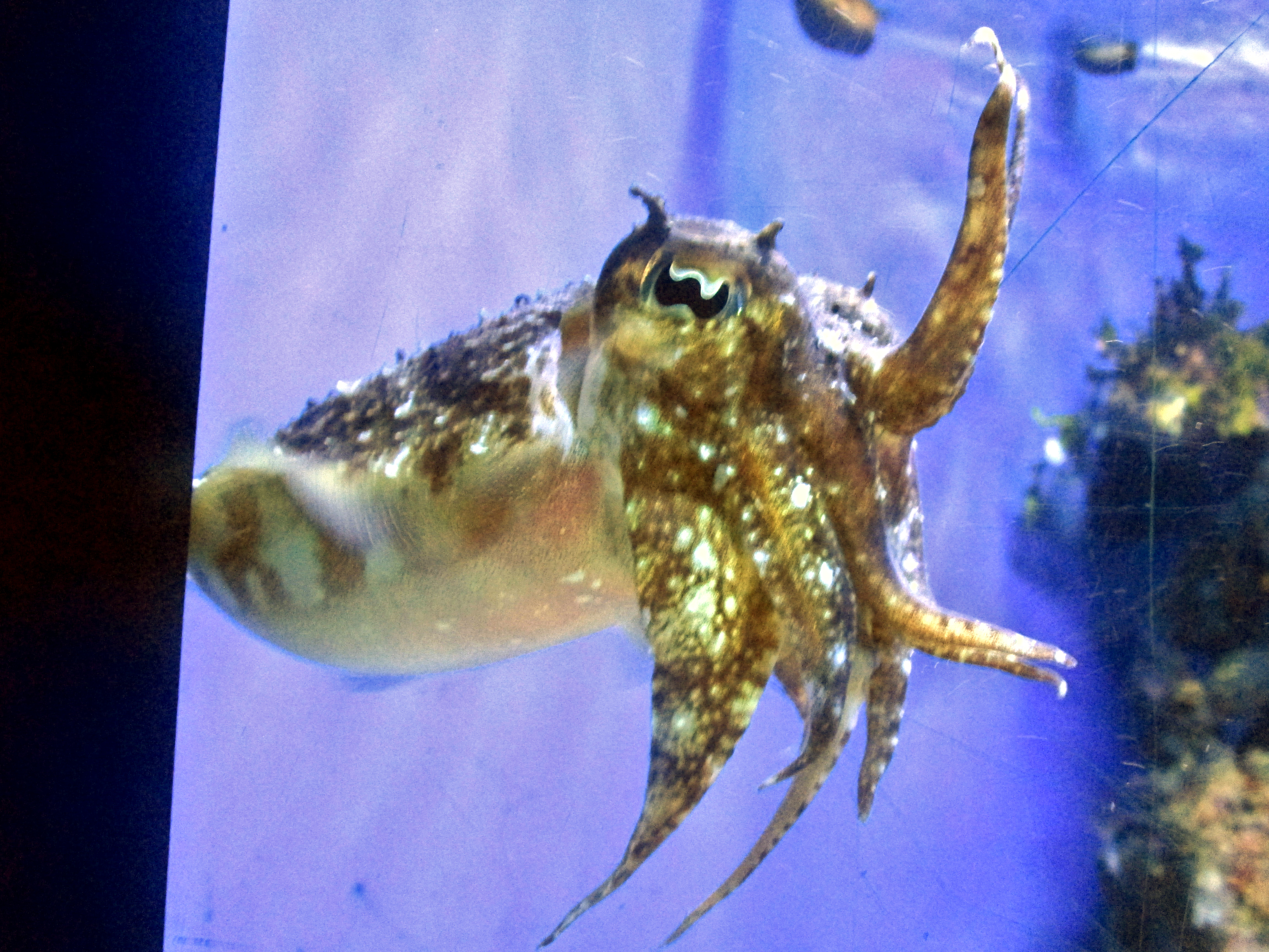 Sepiidae in Musée océanographique de Monaco